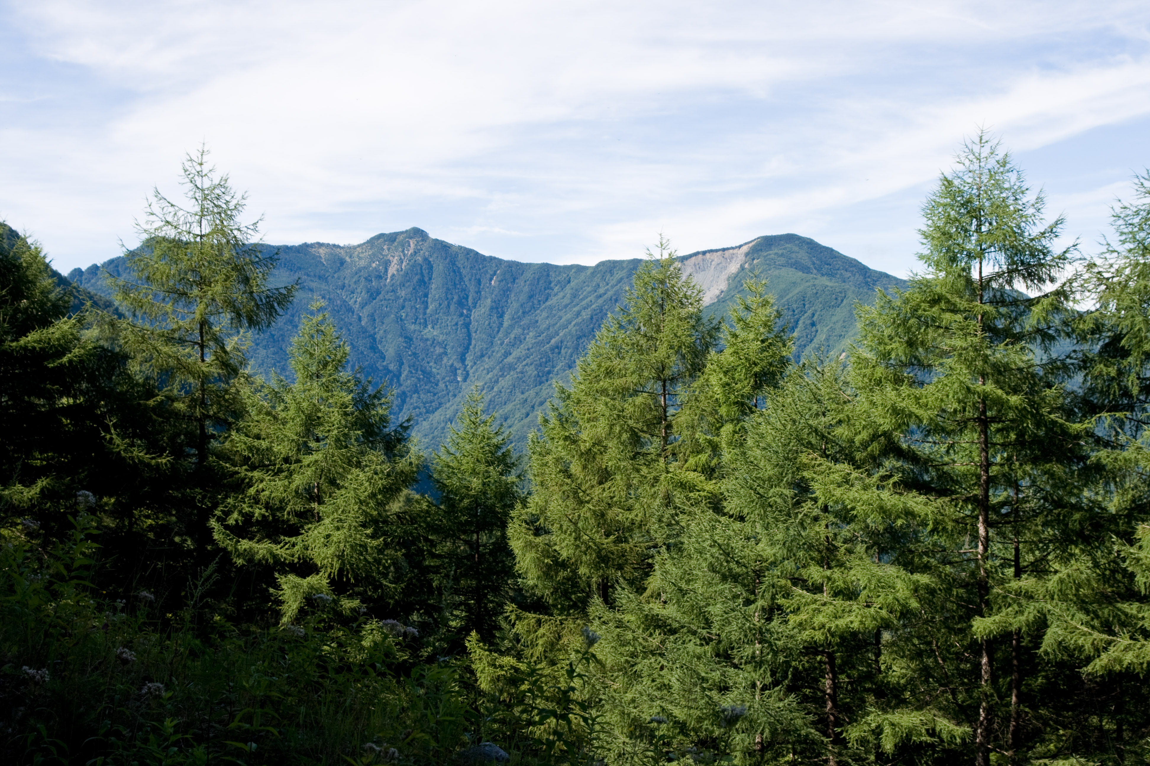 Mt.Okuchausu (奥茶臼山 おくちゃうすやま Okuchausu-yama) as seen from Torikura entrance (鳥倉登山口 とりくらとざんぐち Torikura-tozanguchi:Starting point of a Mt.Shiomi trail), Nagano Pref., Honshu, Japan.